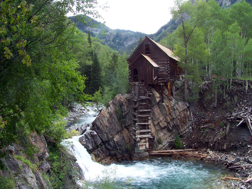 Crystal Mill at Crystal, Colorado.